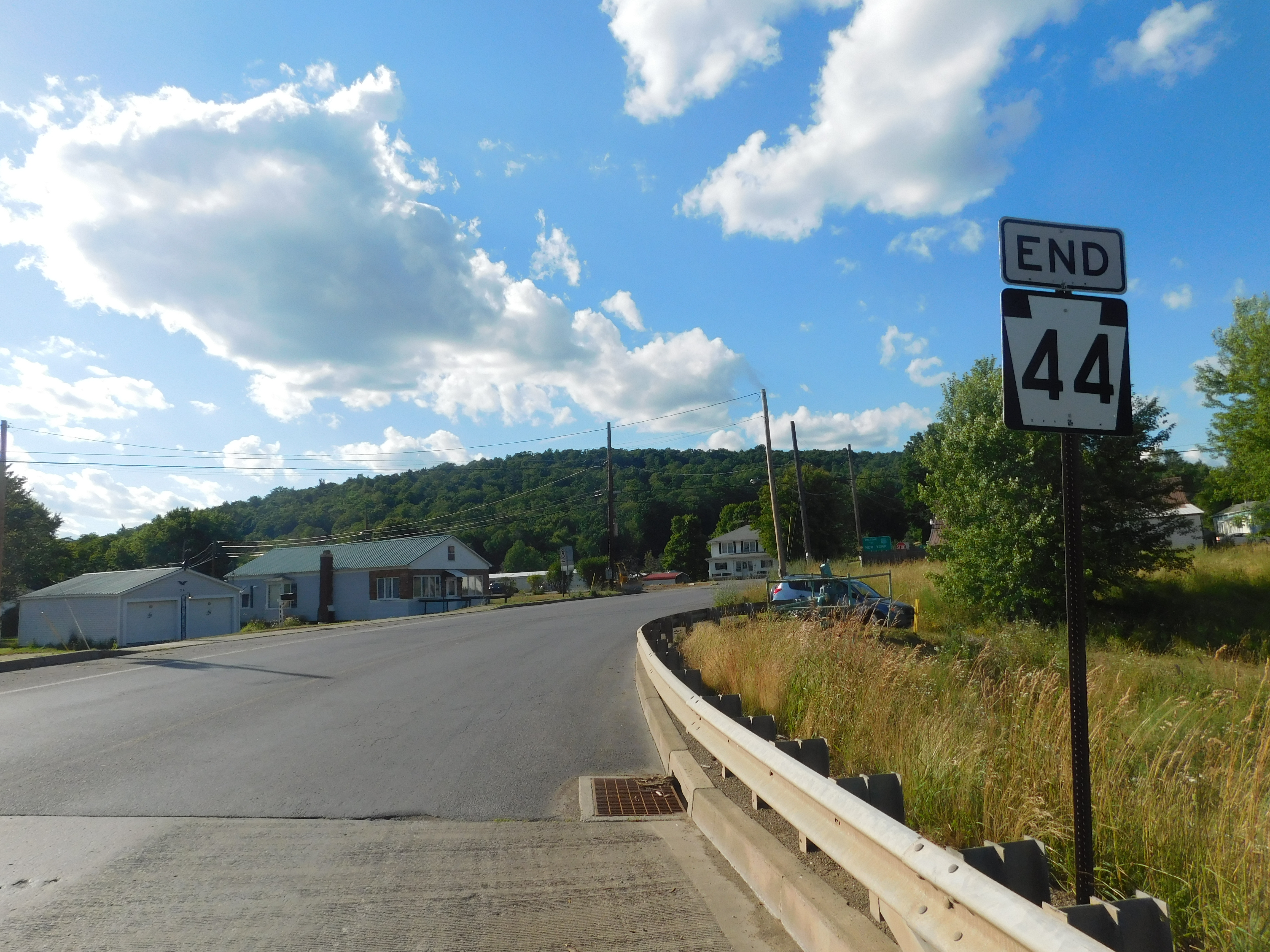 PA 44 at its end in Ceres, Pennsylvania.